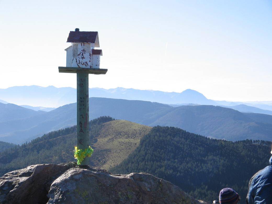 View to the SW from Adarra, with Aralar and Mt.Txindoki in the far distance